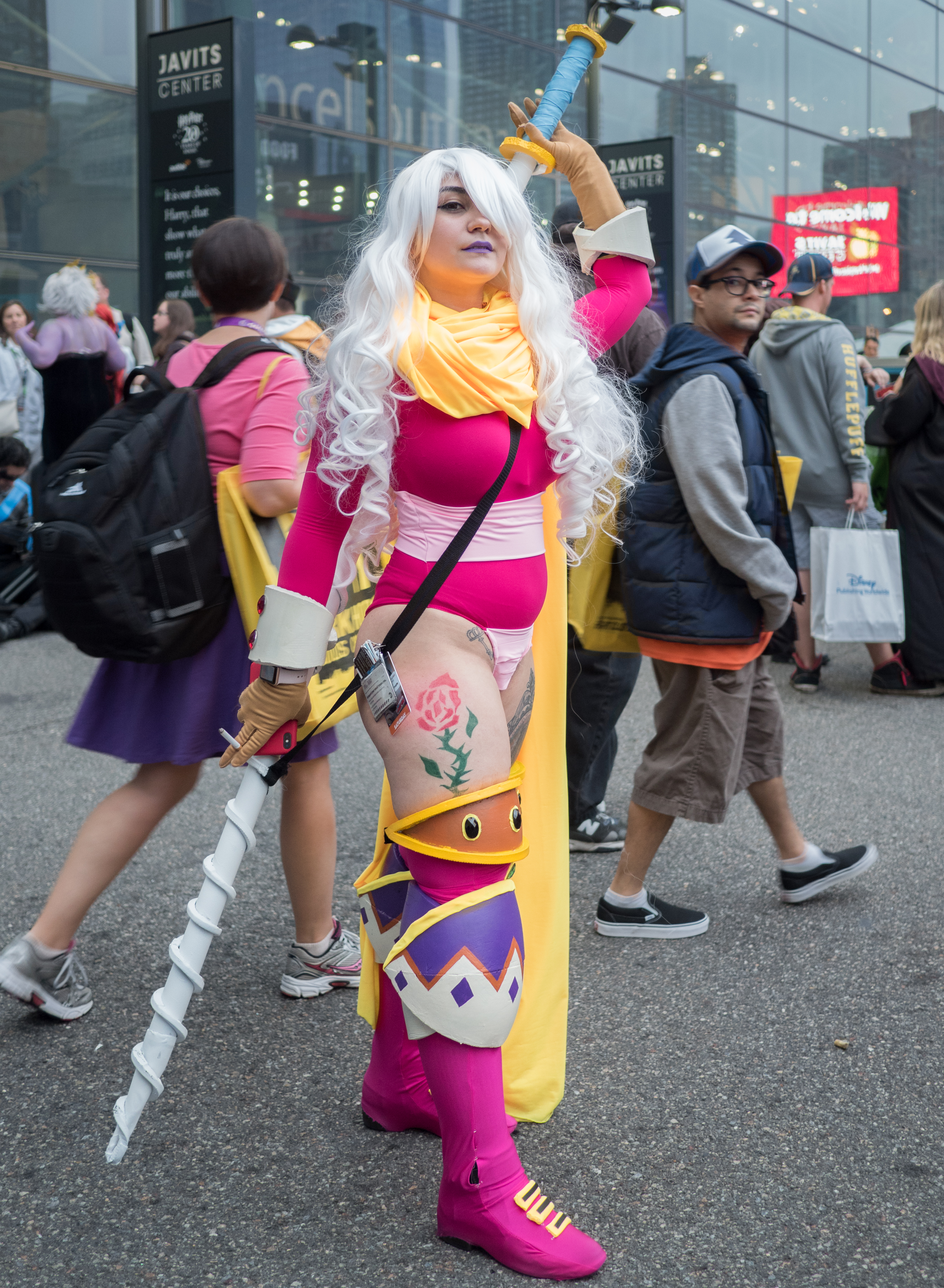 Cosplayer (Smoothie from One Piece) at New York Comic Con in October 2018.